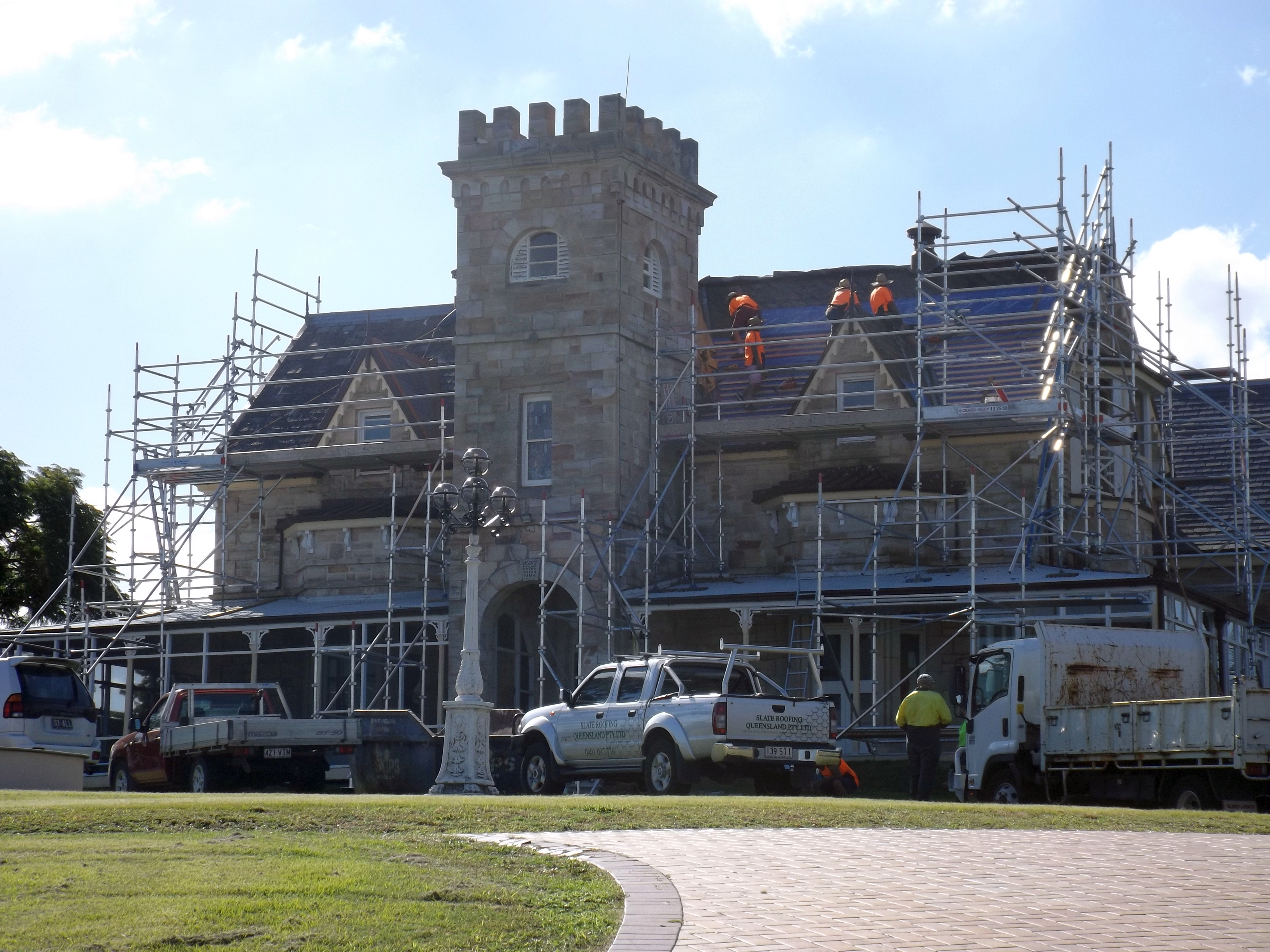 Photo of Toorak House at Hamilton, Brisbane, Queensland, Australia. The building is undergoing major external renovations.